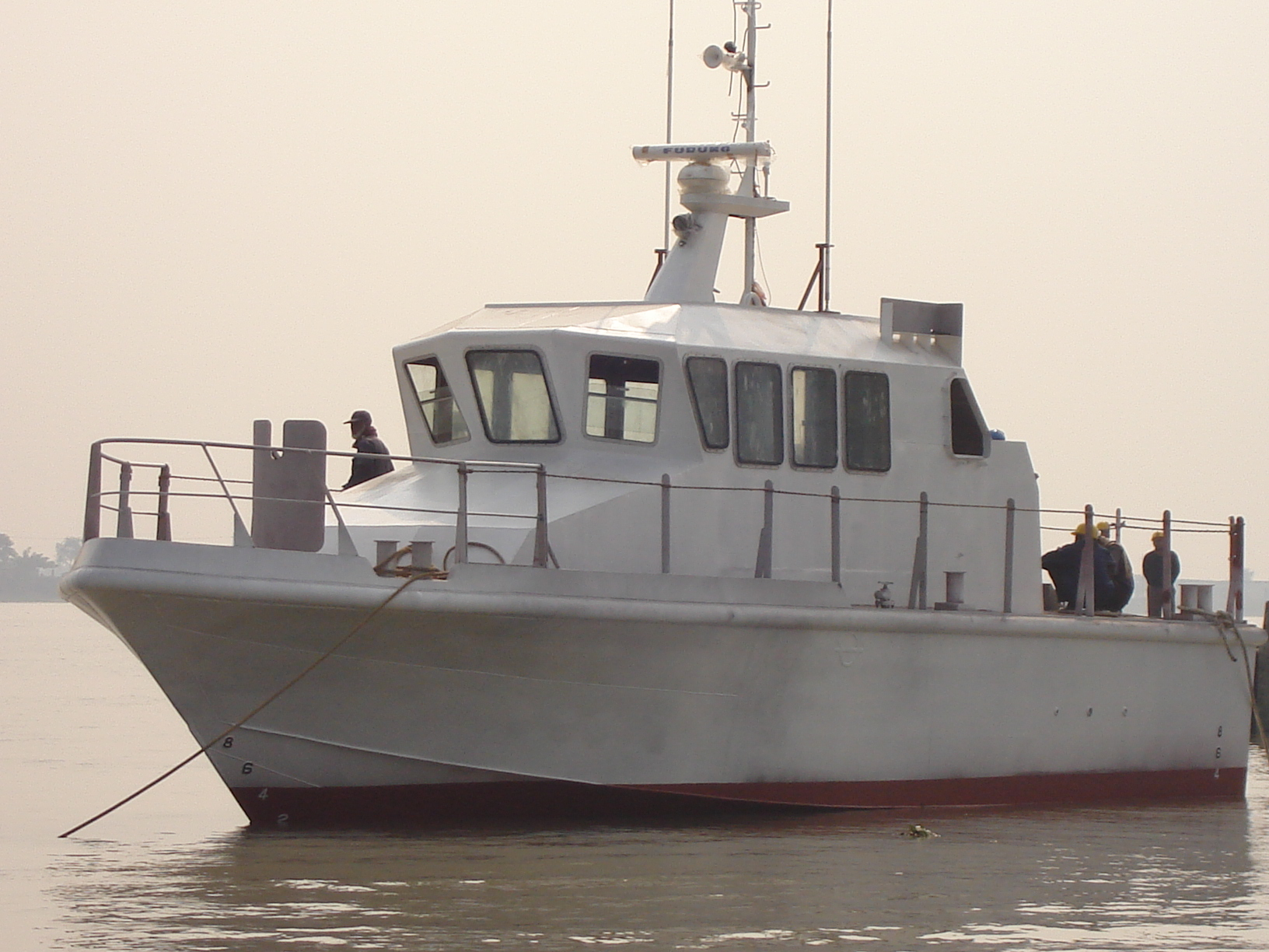 Harbor Patrol boat for Coast Guard